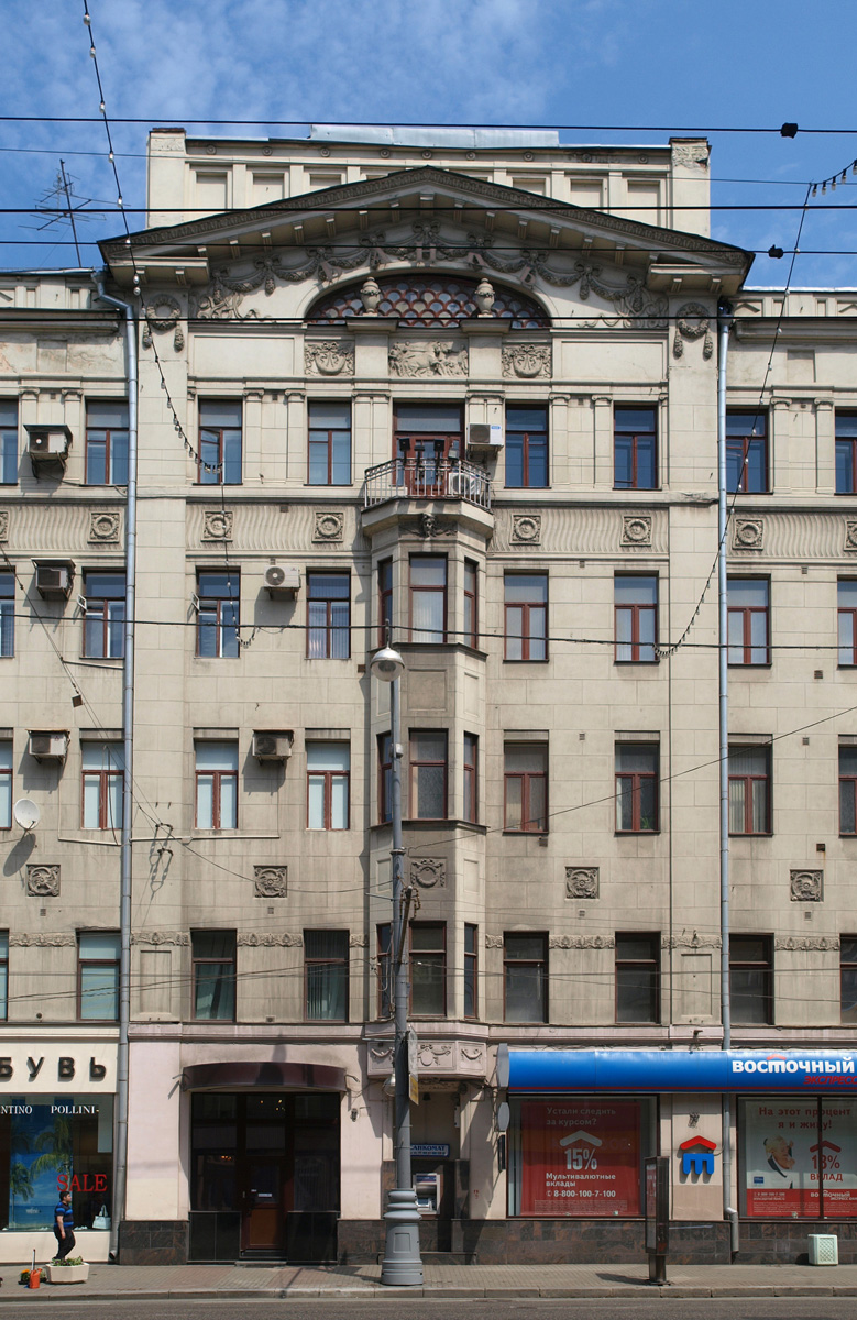 First Tverskaya-Yamskaya Street, Moscow (former Gorky Street)